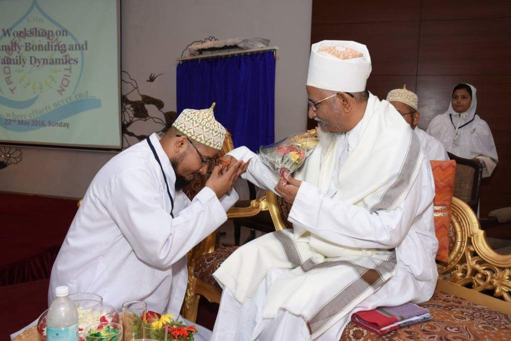 Doing respect by performing salaam to Saiyedna saheb